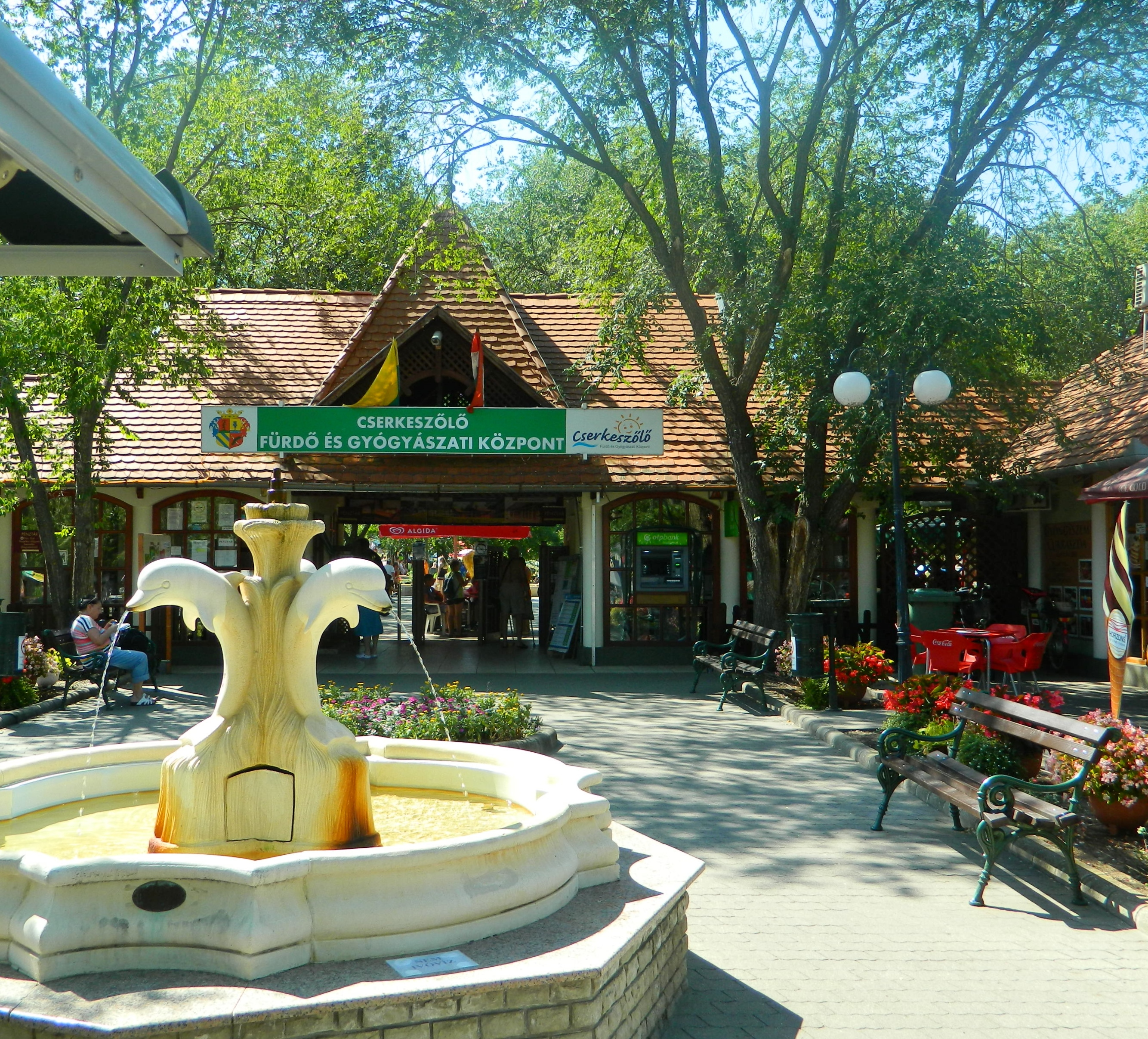 Dolphin well at main entrance of thermal bath in Cserkeszőlő